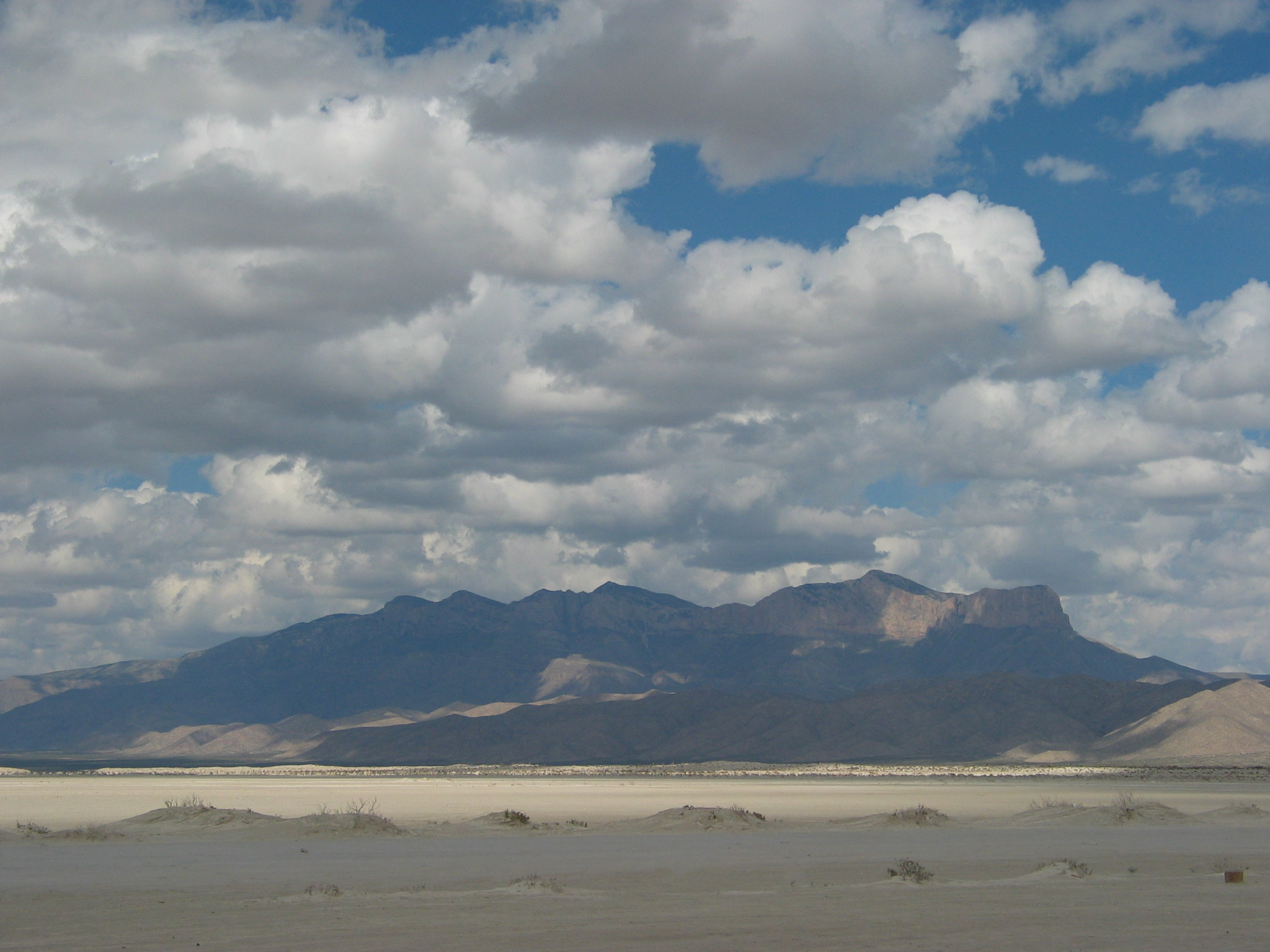 Guadalupe Mountains as seen from the dry Lake Linda outside the park